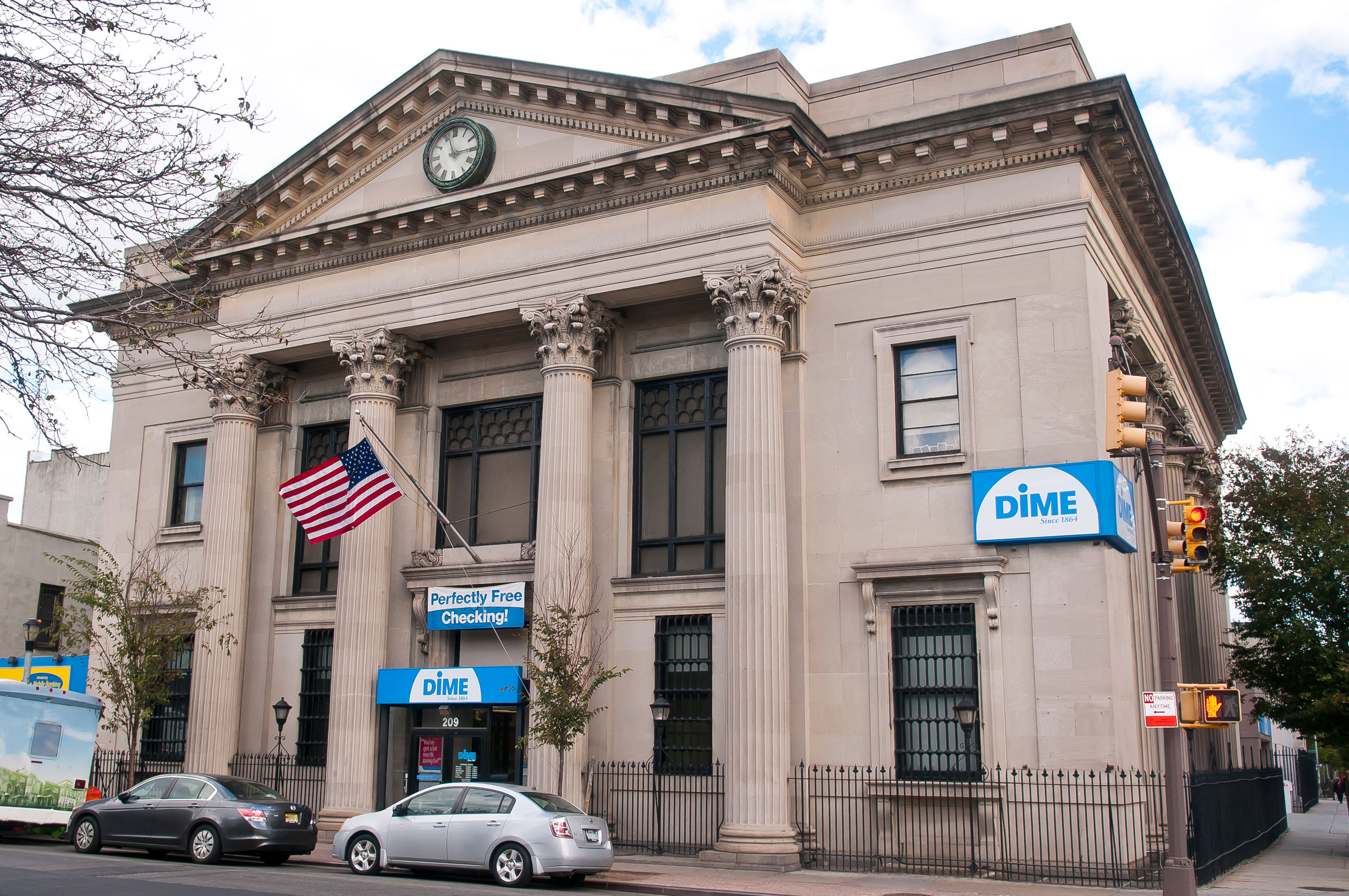 The main branch on Havemeyer Street, Williamsburg, Brooklyn